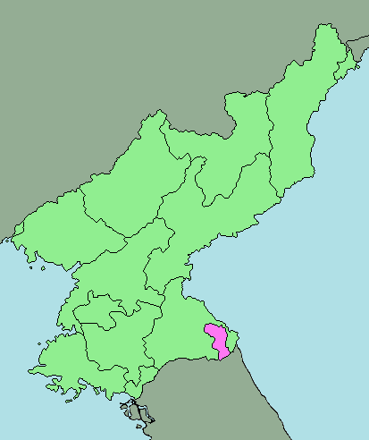 Area map of Kumgangsan Tourist Region